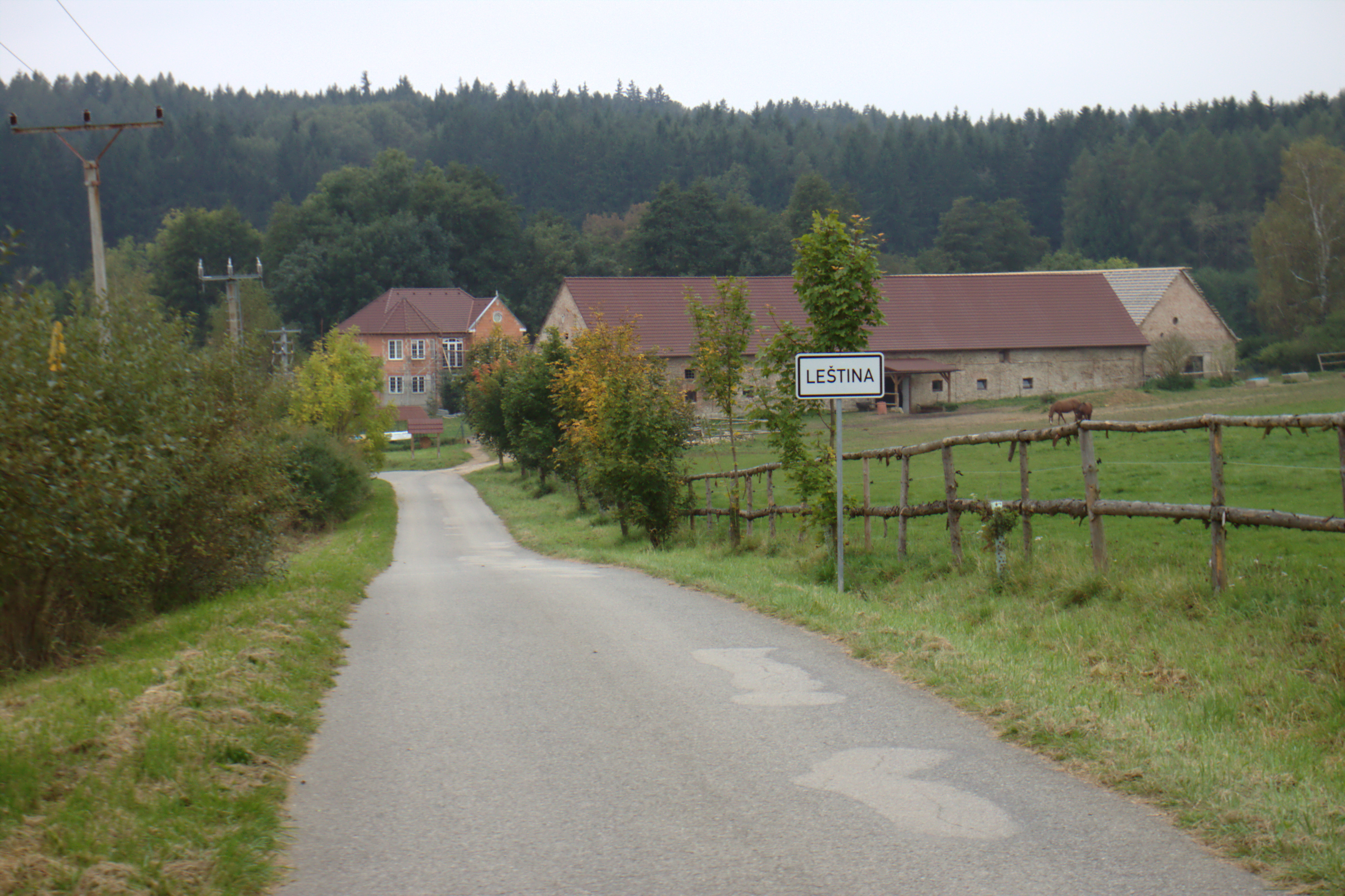 A road to Leština near Slapsko, South Bohemian Region, CZ